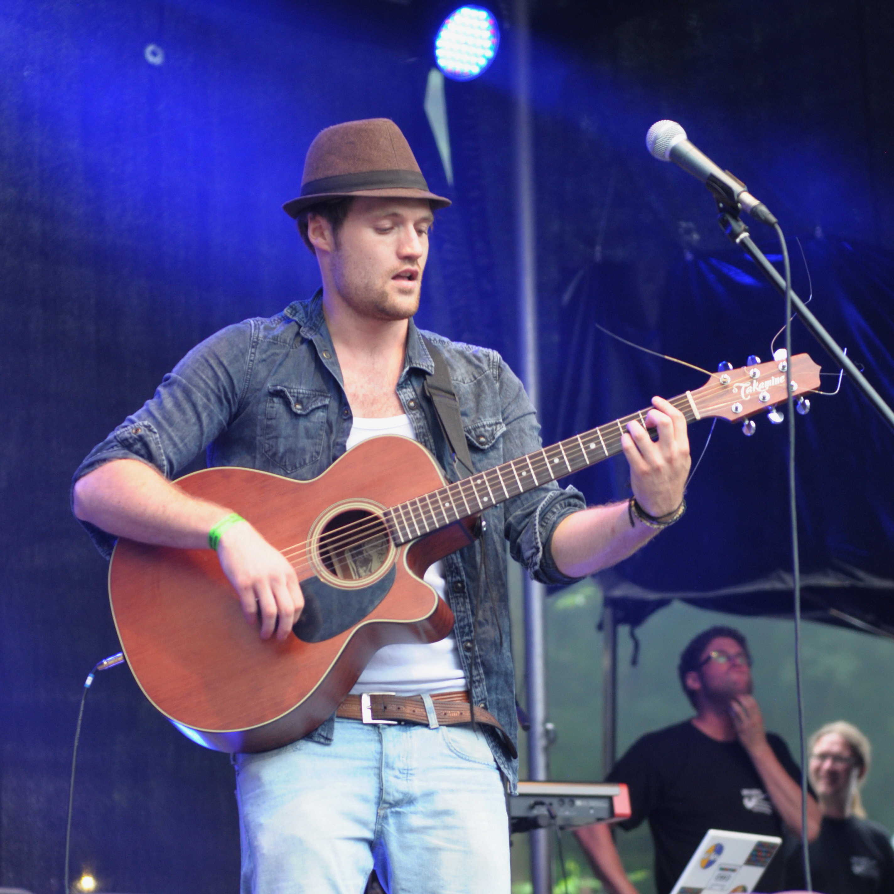 Toppaman (Chris Toppa), WüRG im Park 2015, Wülfrath